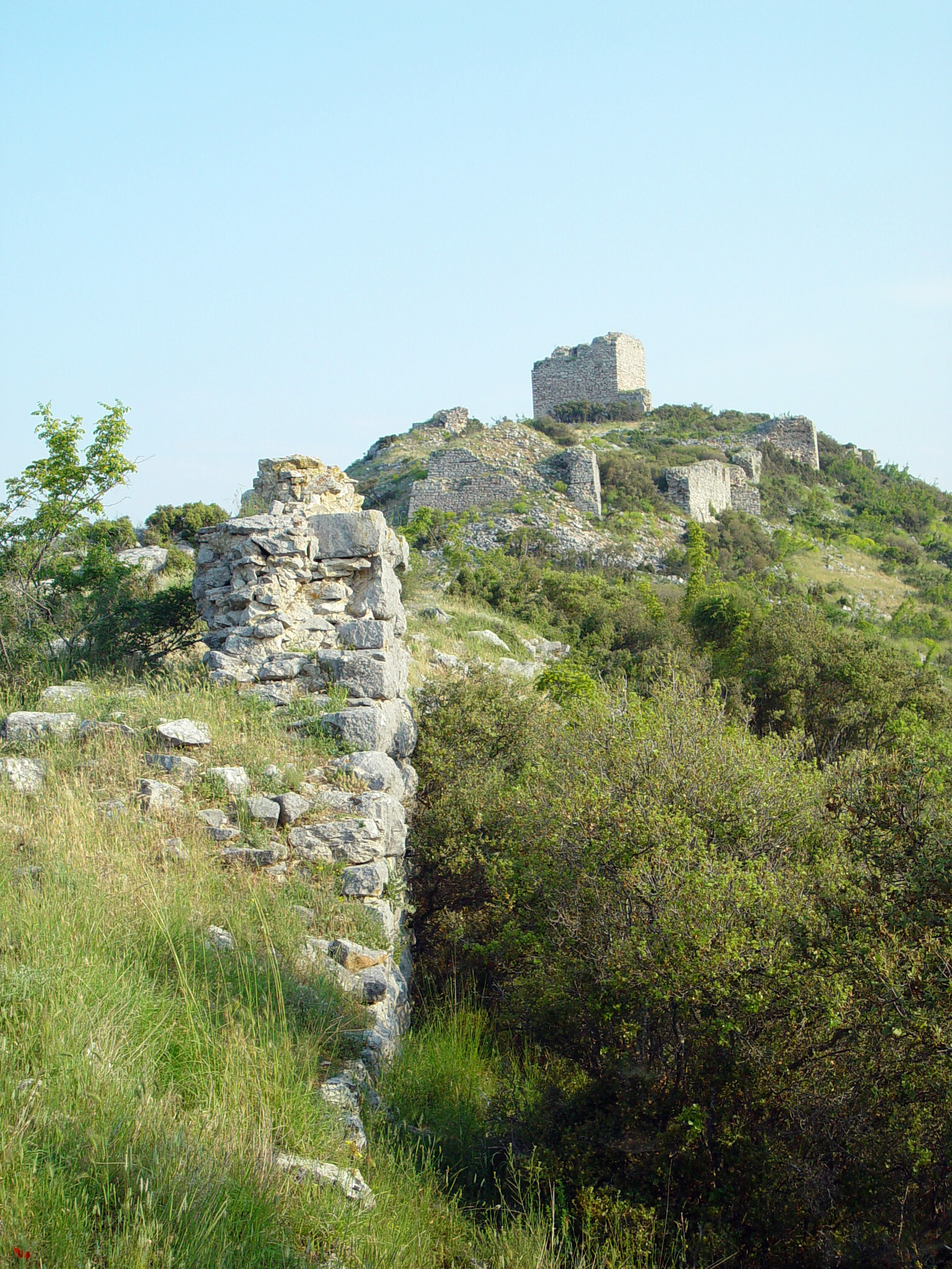 Philippi city wall and acropolis fortifications.